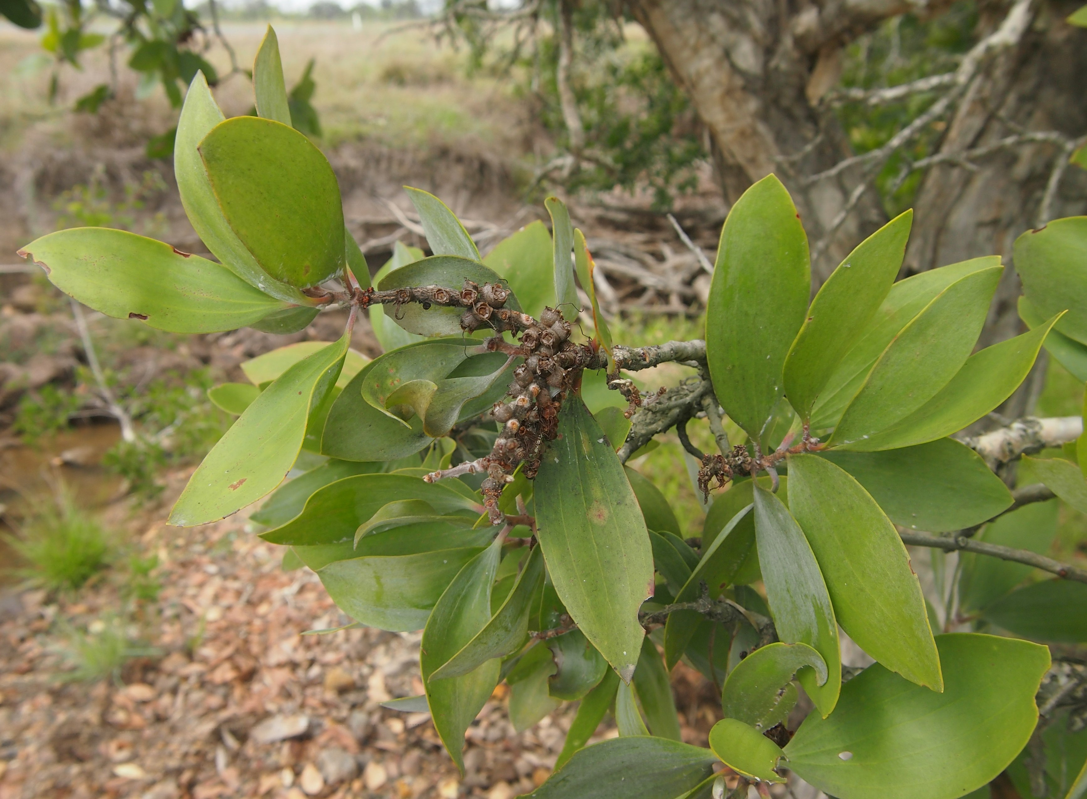 Melaleuca viridiflora foliage and fruit